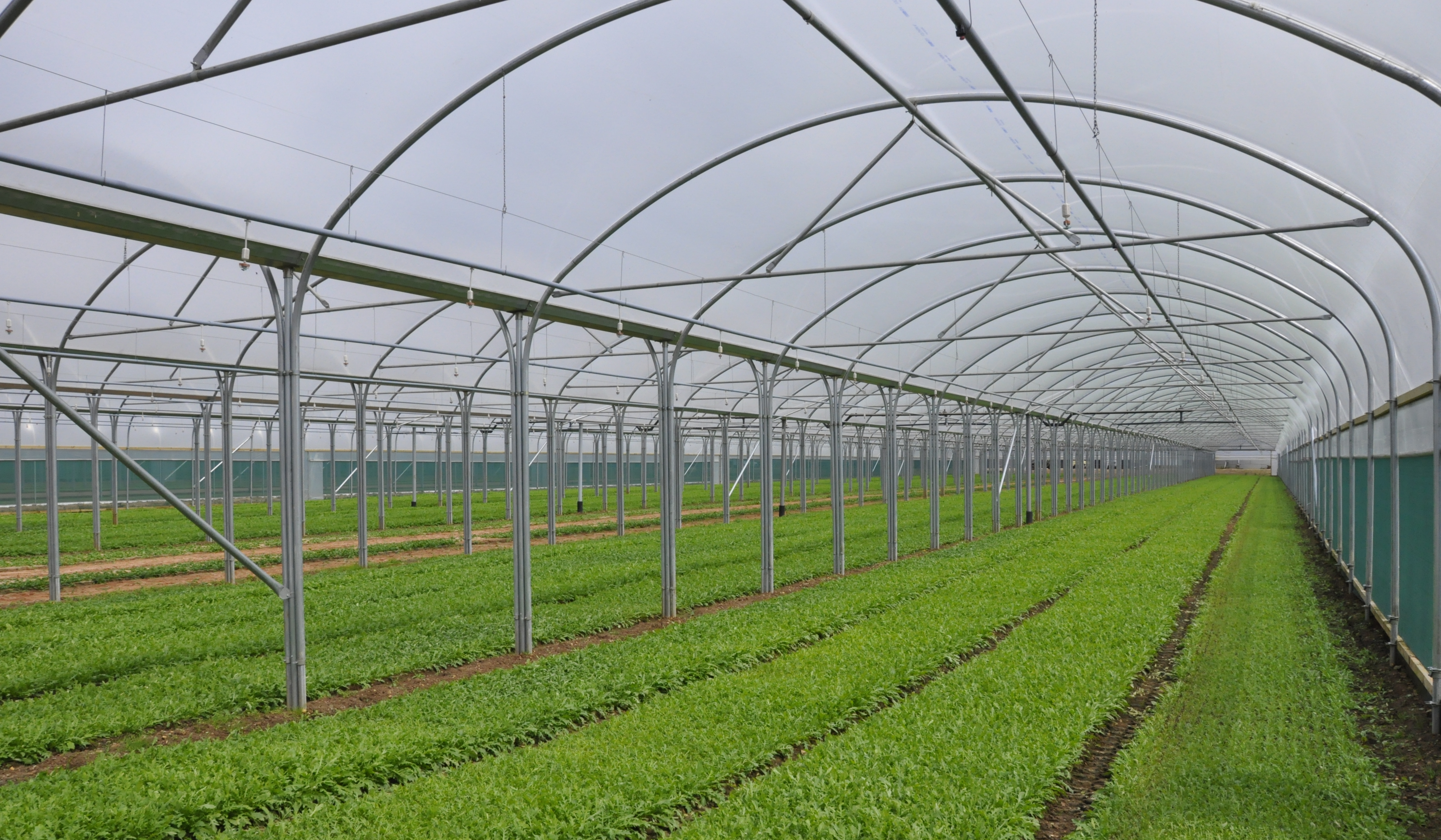 Salad growing